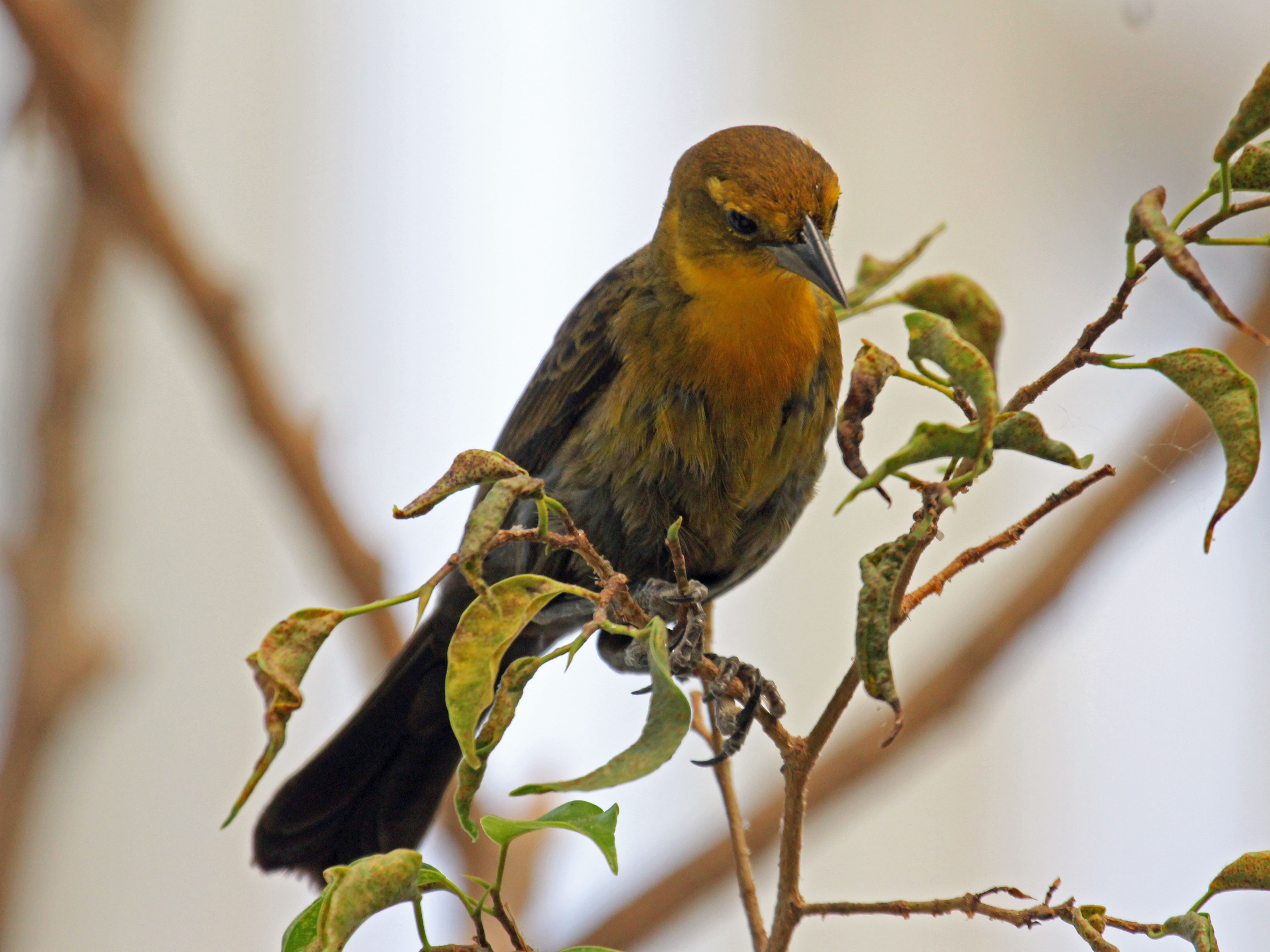 Female Yellow-hooded Blackbird (Chrysomus icterocephalus) - National Aviary in Pittsburgh, Pennsylvania.